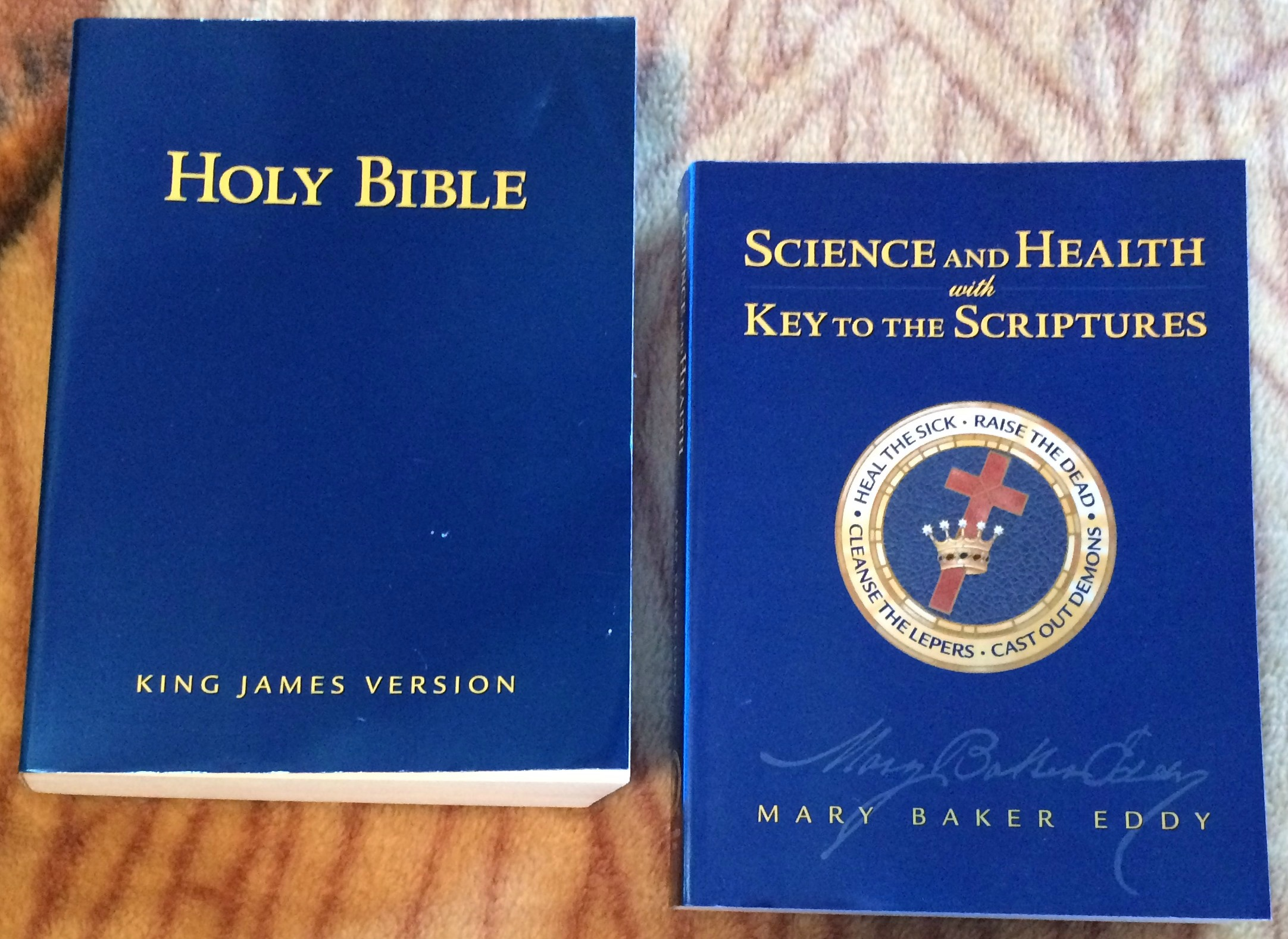 A Holy Bible (KJV) and Science and Health with Key to the Scriptures; these were published by Christian Science Publishing Society. They are located in my library.